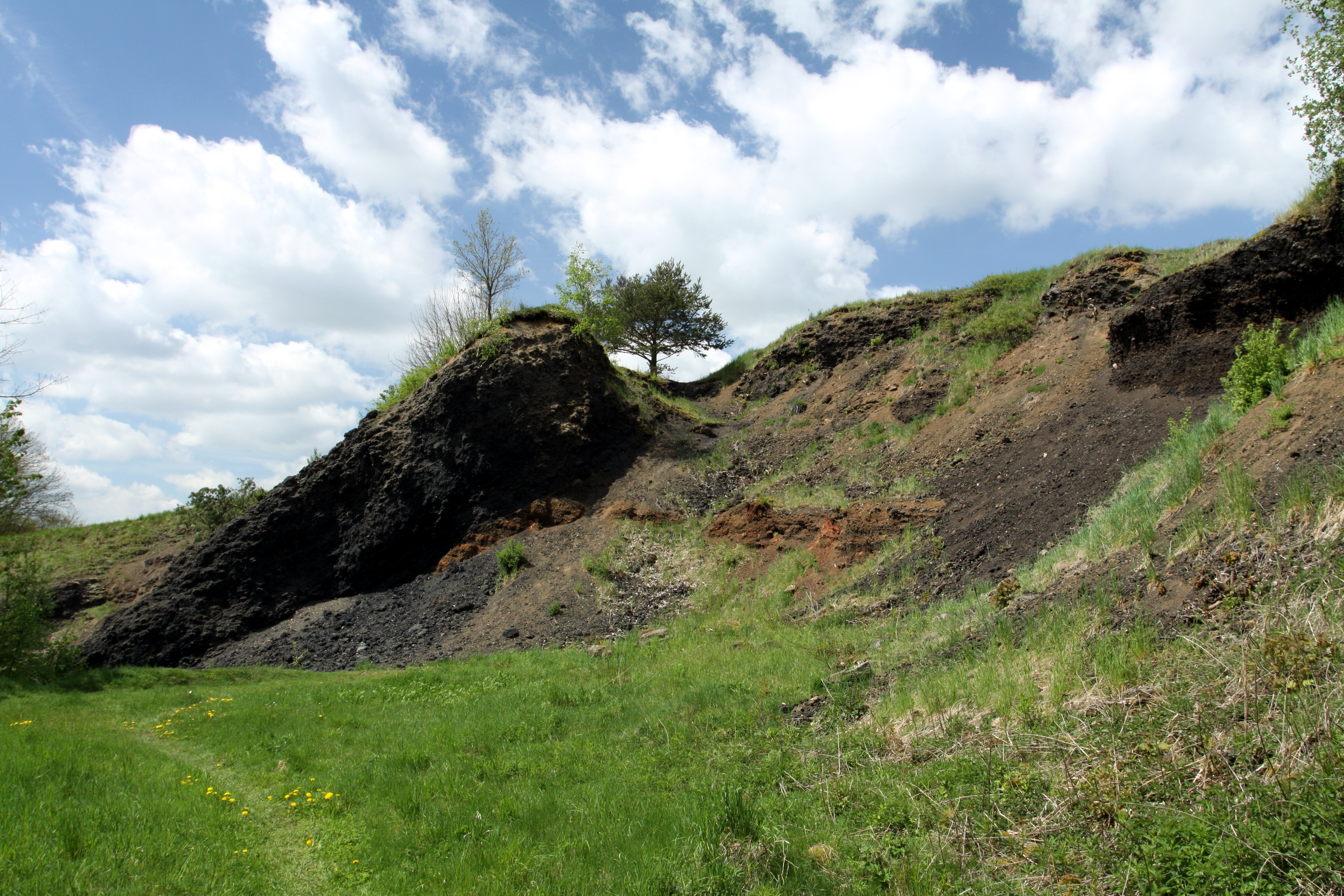 National natural monument Železná hůrka near Lipová village in Cheb District, Czech Republic